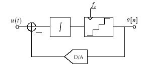 1º order Sigma-Delta